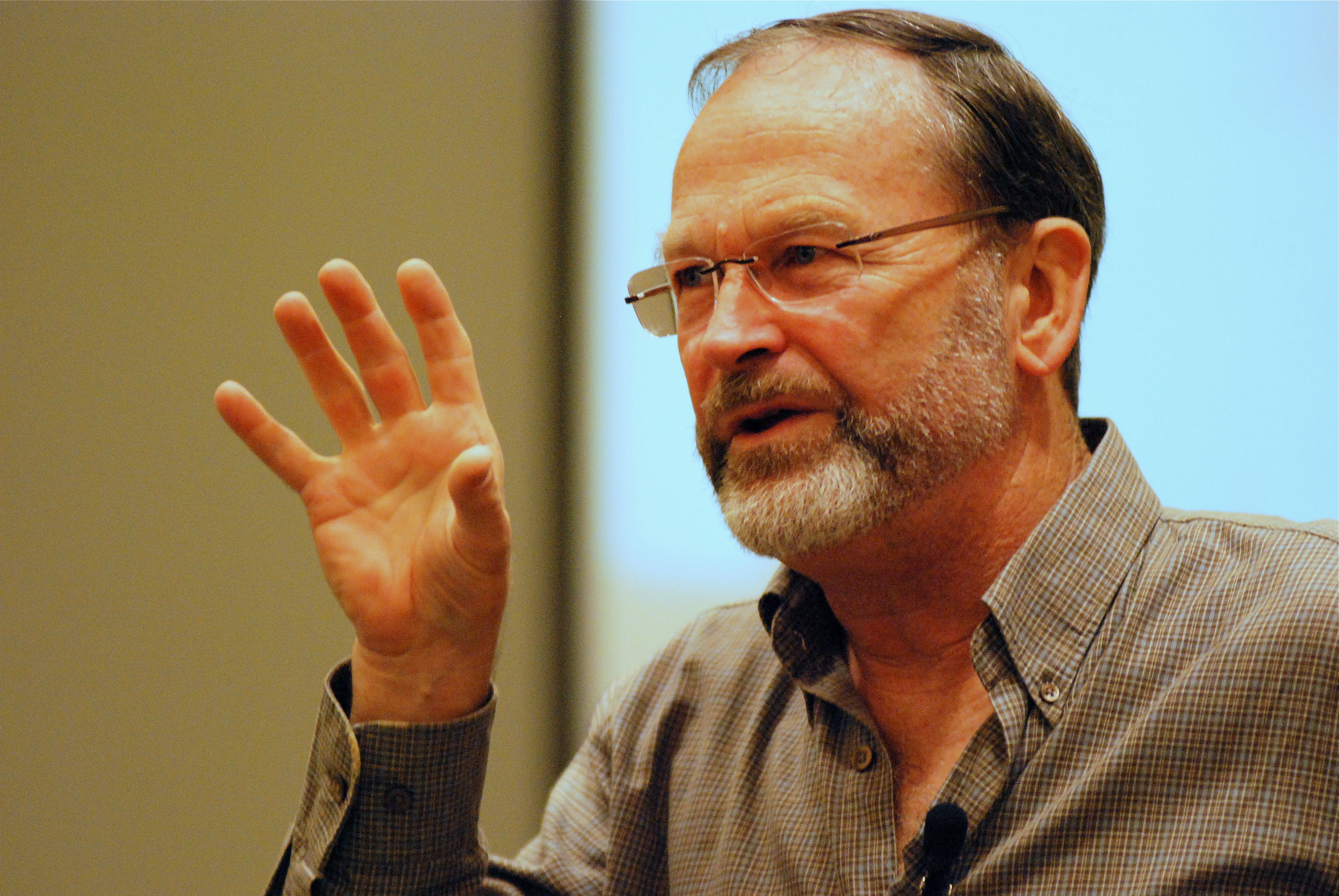 William E. Rees, speaking at the UBC Advanced Molecular Biology Lab (AMBL) High School Teacher Conference on October 24, 2008.